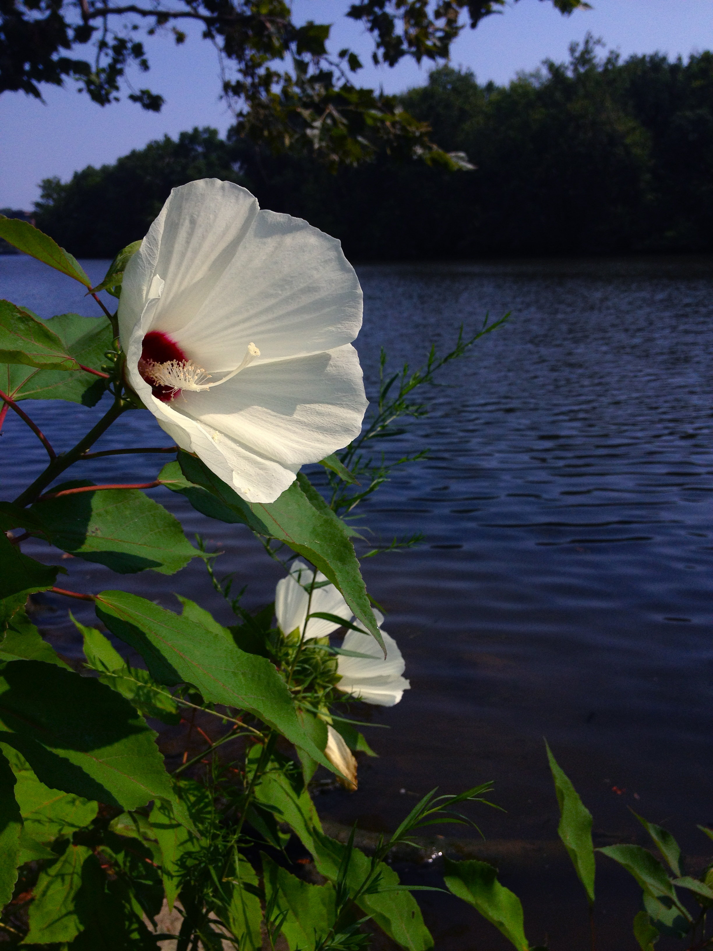 Photo of Hibiscus moscheutos in flower. This is a native plant growing wild along the Potomac Heritage Trail, in Arlington county, Virginia, USA. This species is a member of the Malvaceae family.